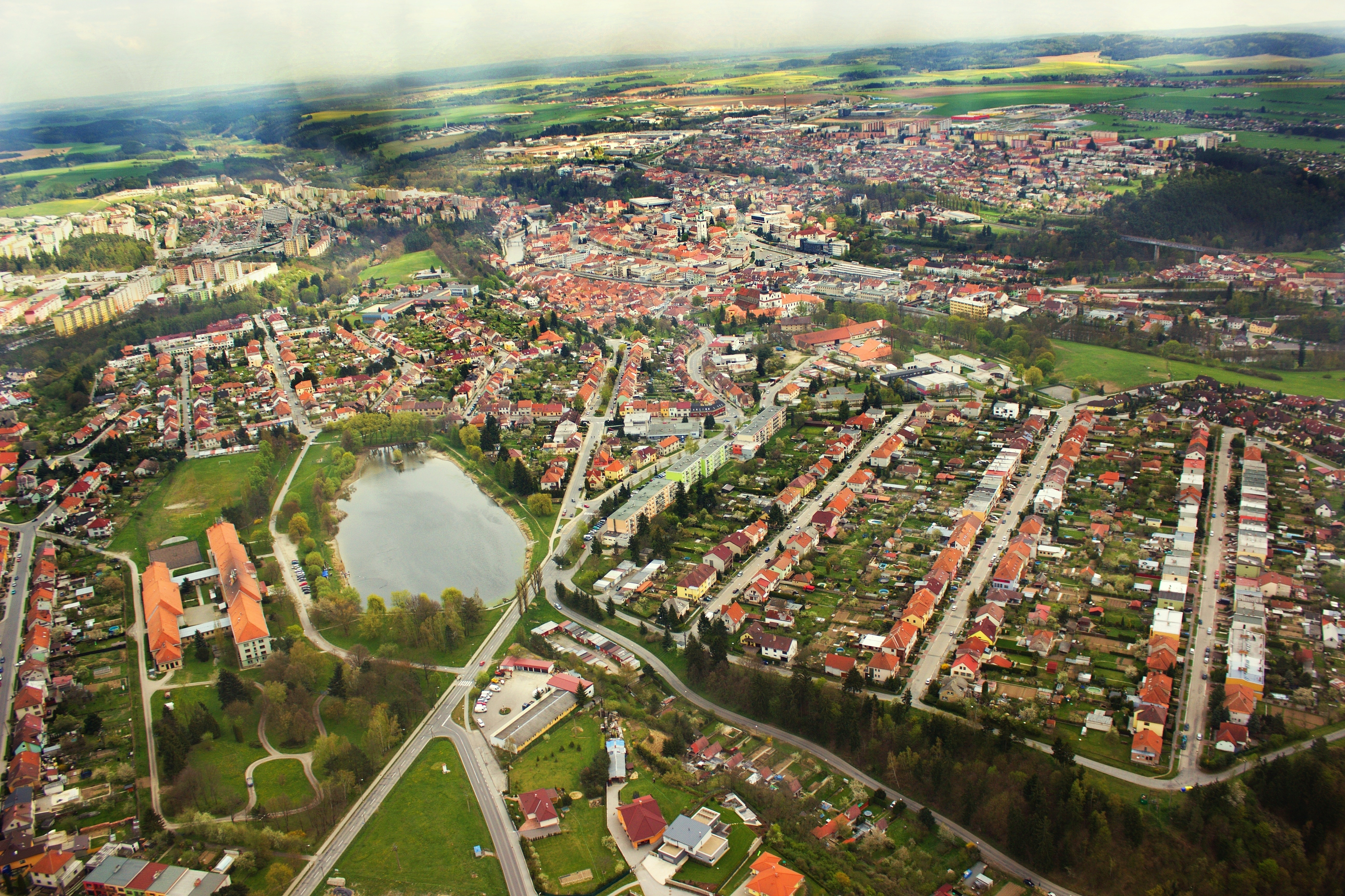 Aerial view of Czech town Třebíč from north-west